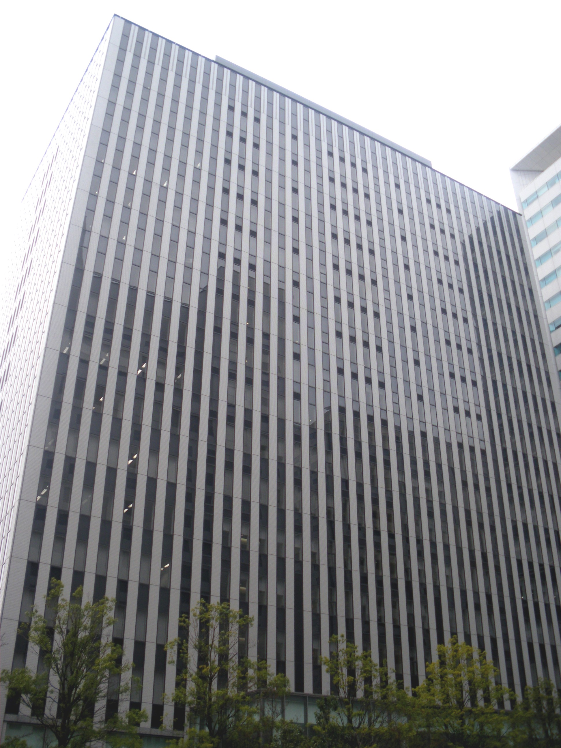 A photo of Shinagawa Seaside West Tower.Higashishinagawa,Shinagawa-ku,Tokyo,Japan.